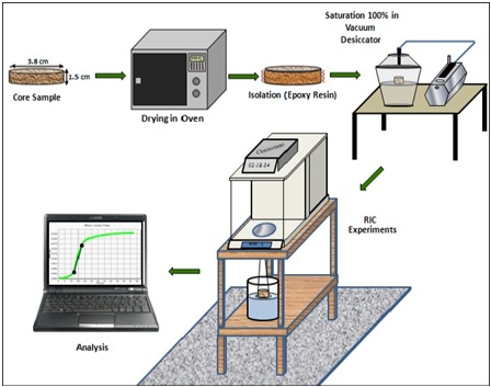 Figure 1. Rise In Core Experimental Setup